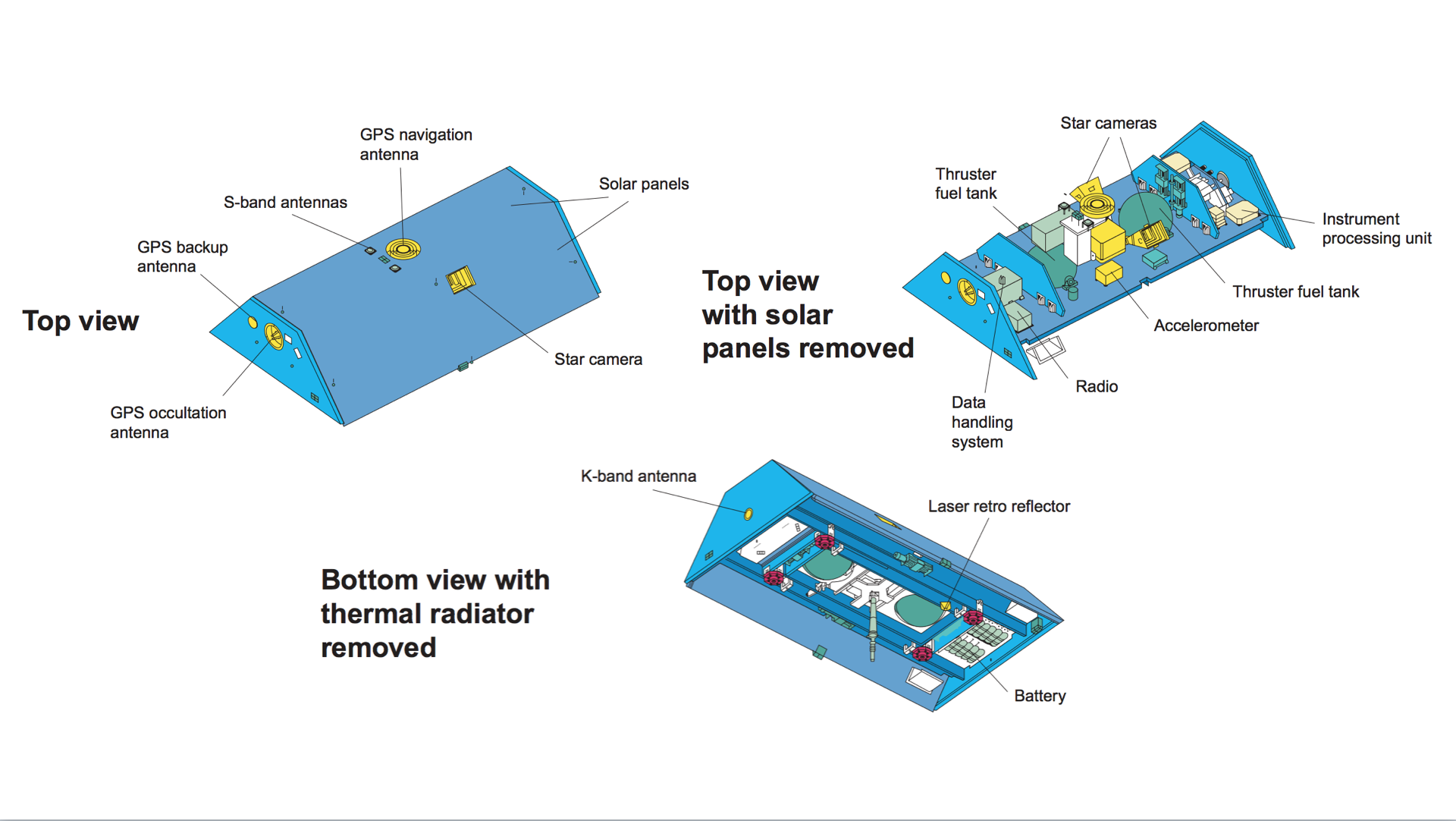 Layout, systems and instruments aboard each of the the Gravity Recovery and Climate Experiment (GRACE) spacecraft. This image was adapted on 2015-06-12 from page 27 of the NASA GRACE Launch Press Kit available at